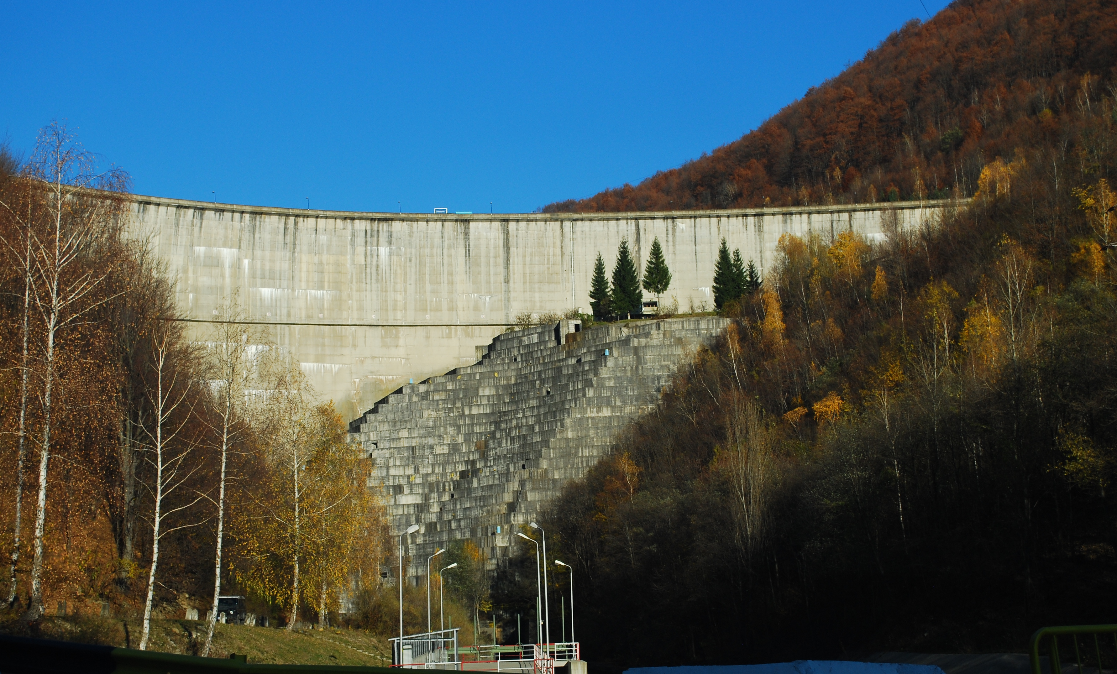 Paltinu dam, on the Doftana river, Prahova County, Romania